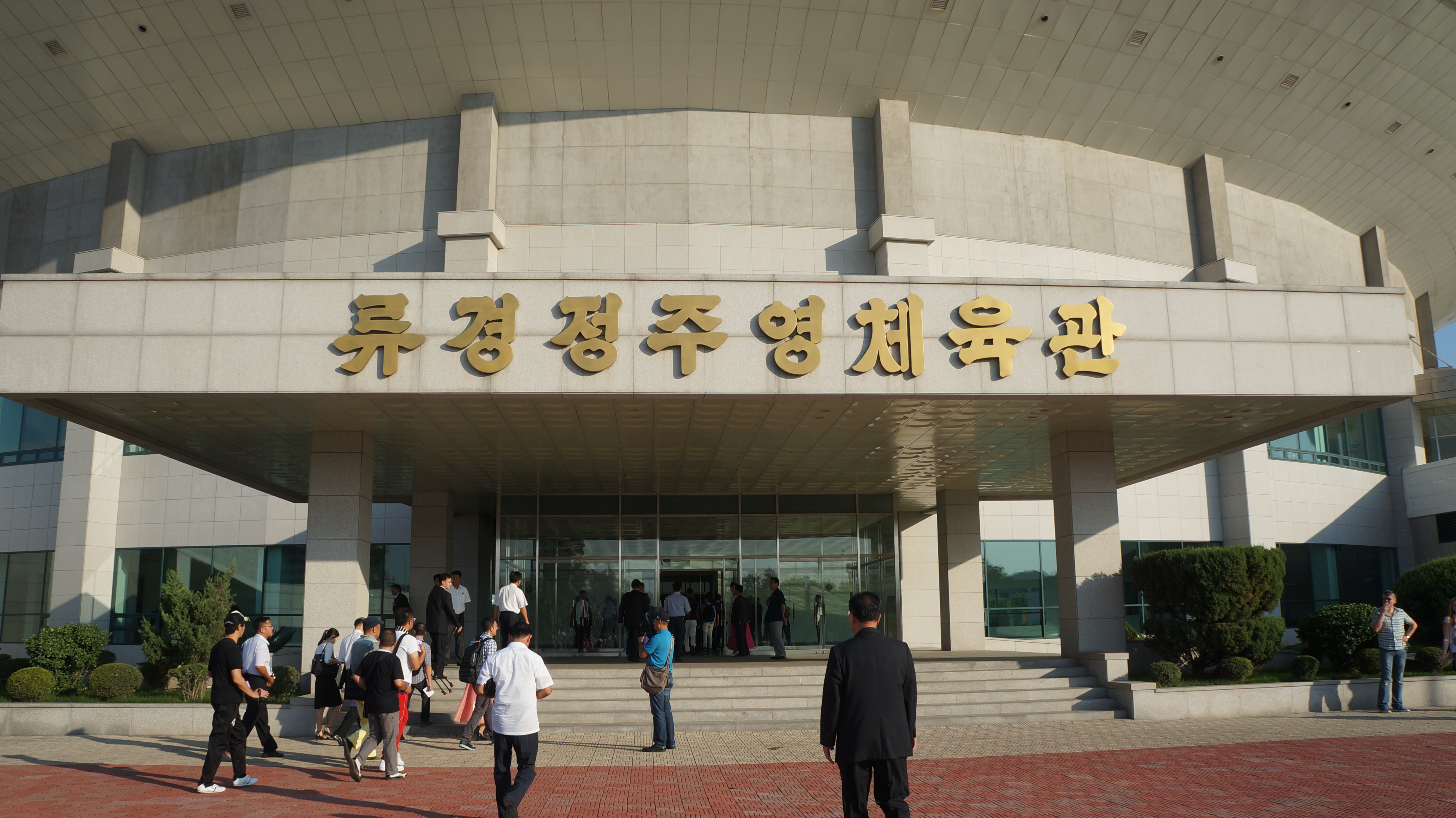 Where the Inoki pro-wrestling friendship games were held